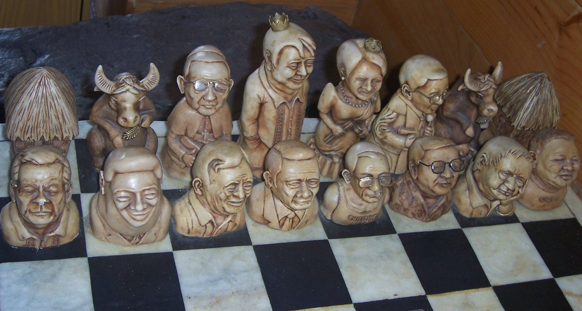 Found at the Manor Hotel, this is one of the 100 sets made by expat Peter Pinder depicting prominent political figures who played a role during EDSA DOS. Erap is the King, GMA the Queen.Political Chess set